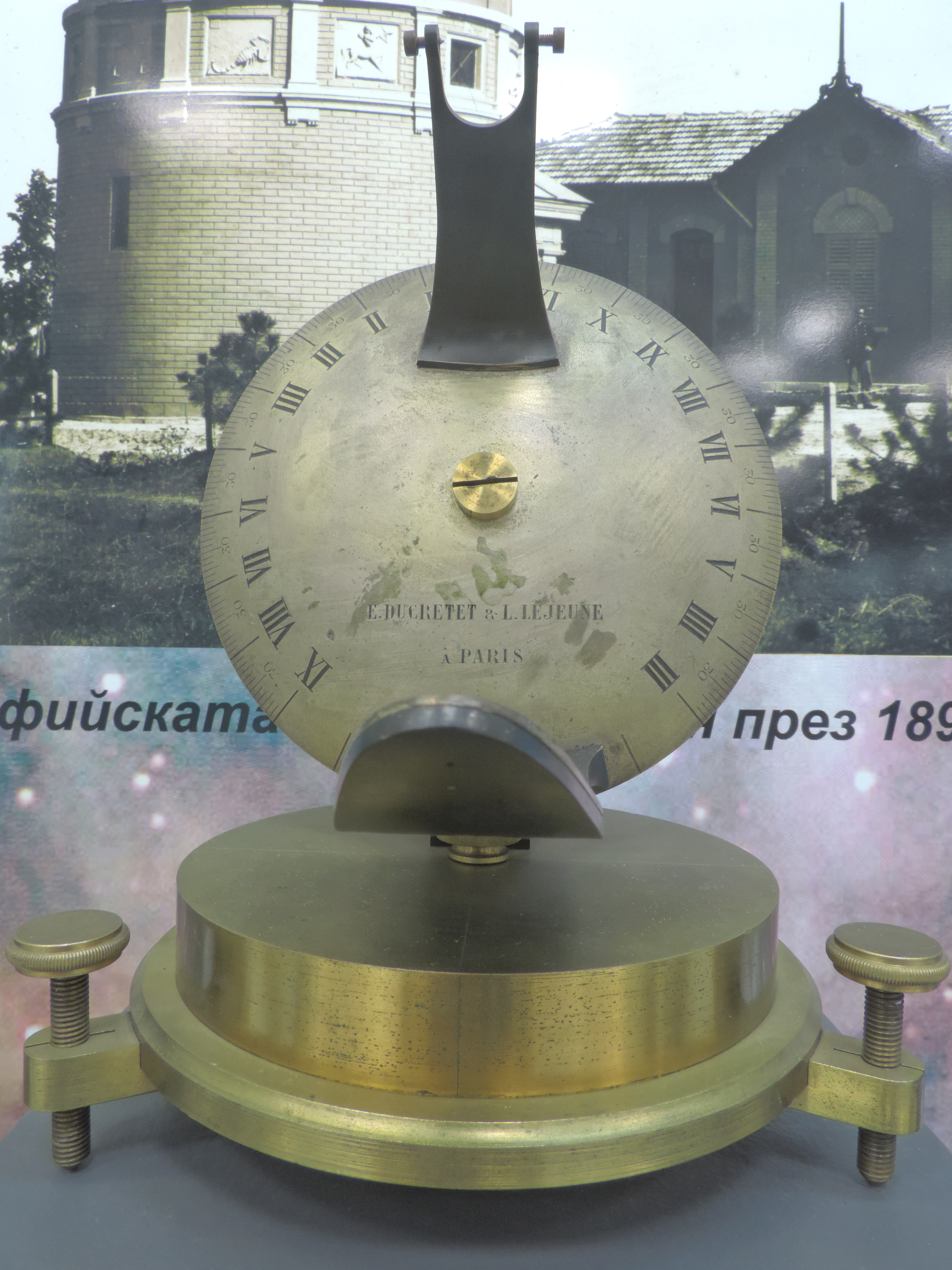 Sundial with analemma, E. Ducretet & L. Lejeune, Paris, the end of XIX century. The analemma shows "the equation of time function" and allows for the correction of what the clock reads.